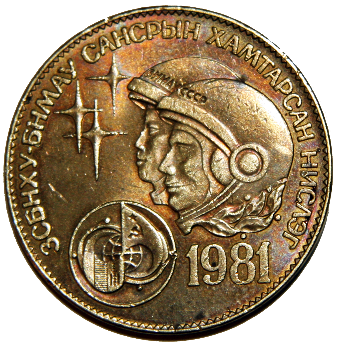 A MPR-era 1 togrog coin commemorating Mongolia's first cosmonaut Jügderdemidiin Gürragchaa's flight with Soviet cosmonaut Vladimir Dzhanibekov in 1981. Монгол: Жүгдэрдэмидийн Гүррагчаа ба Владимир Джанибековын сансрын нислэгийг үзүүлсэн БНМАУ-ын үеийн 1 төгрөгний зоос.